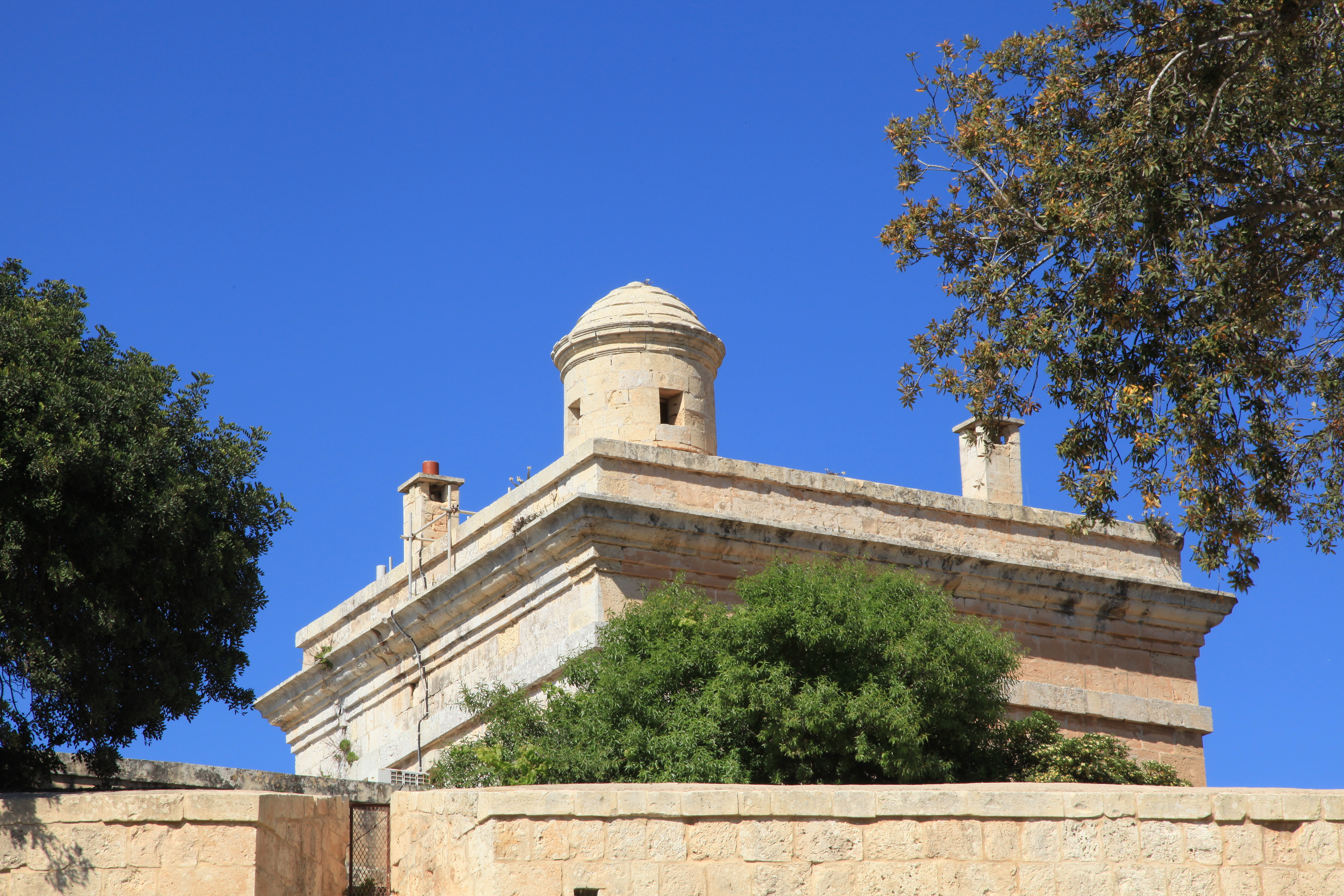 Torre dello Standardo, Pjazza San Publiju in Mdina, Malta